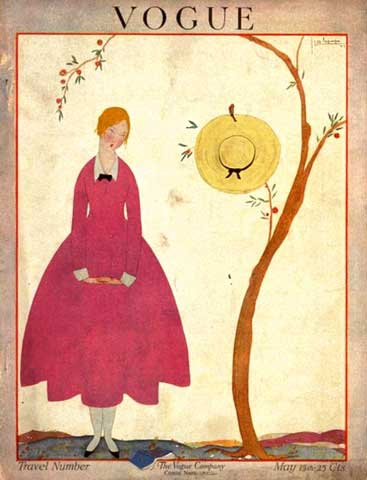 Vogue magazine cover, May 1917